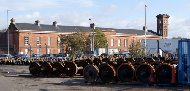 Wheels